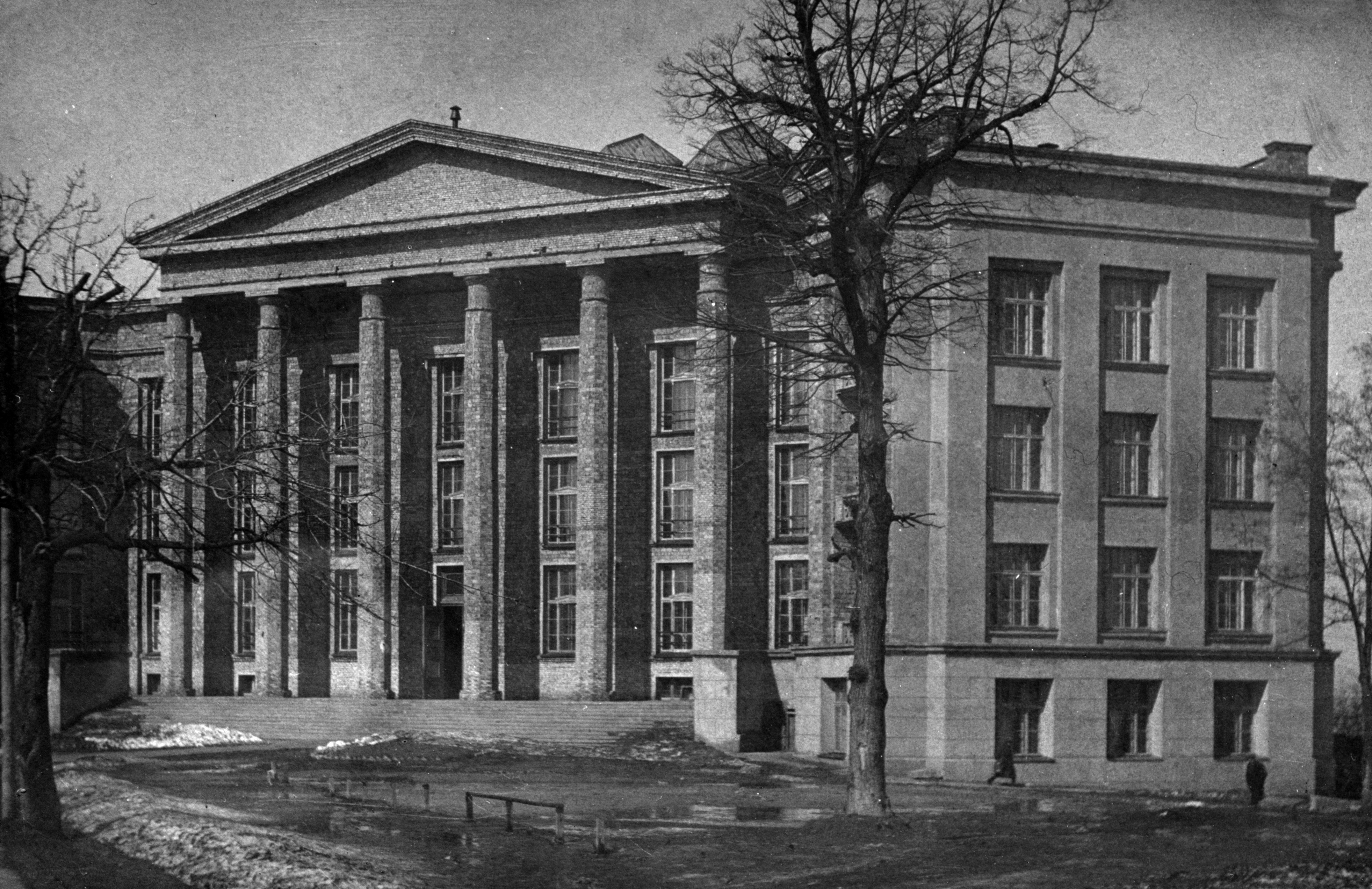 The Shevchenko State Art School in Kyiv, 1940. At that time this school was the first and only selective high school for artists in the Soviet Union.